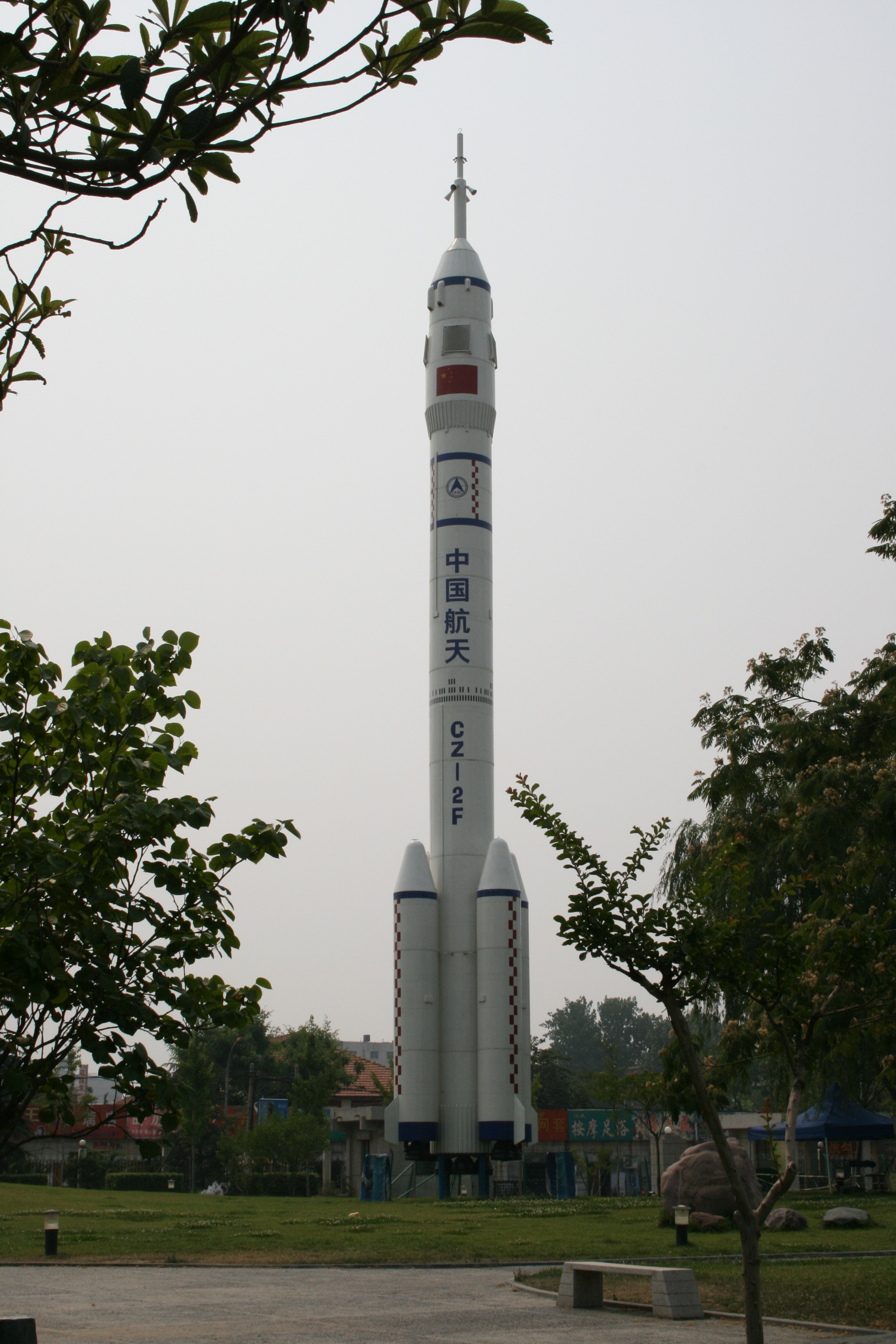 Mockup of the Chinese CZ-2F crewed rocket.